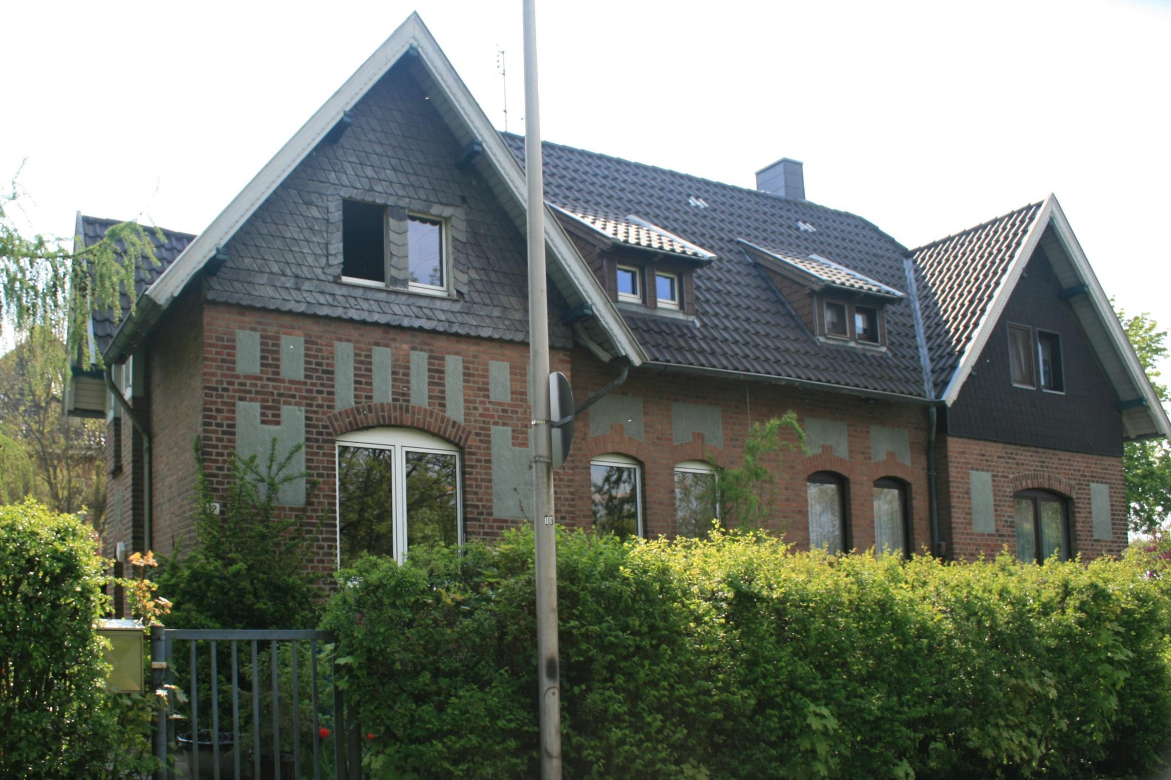 Cultural heritage monument No. 1/001s in Düren